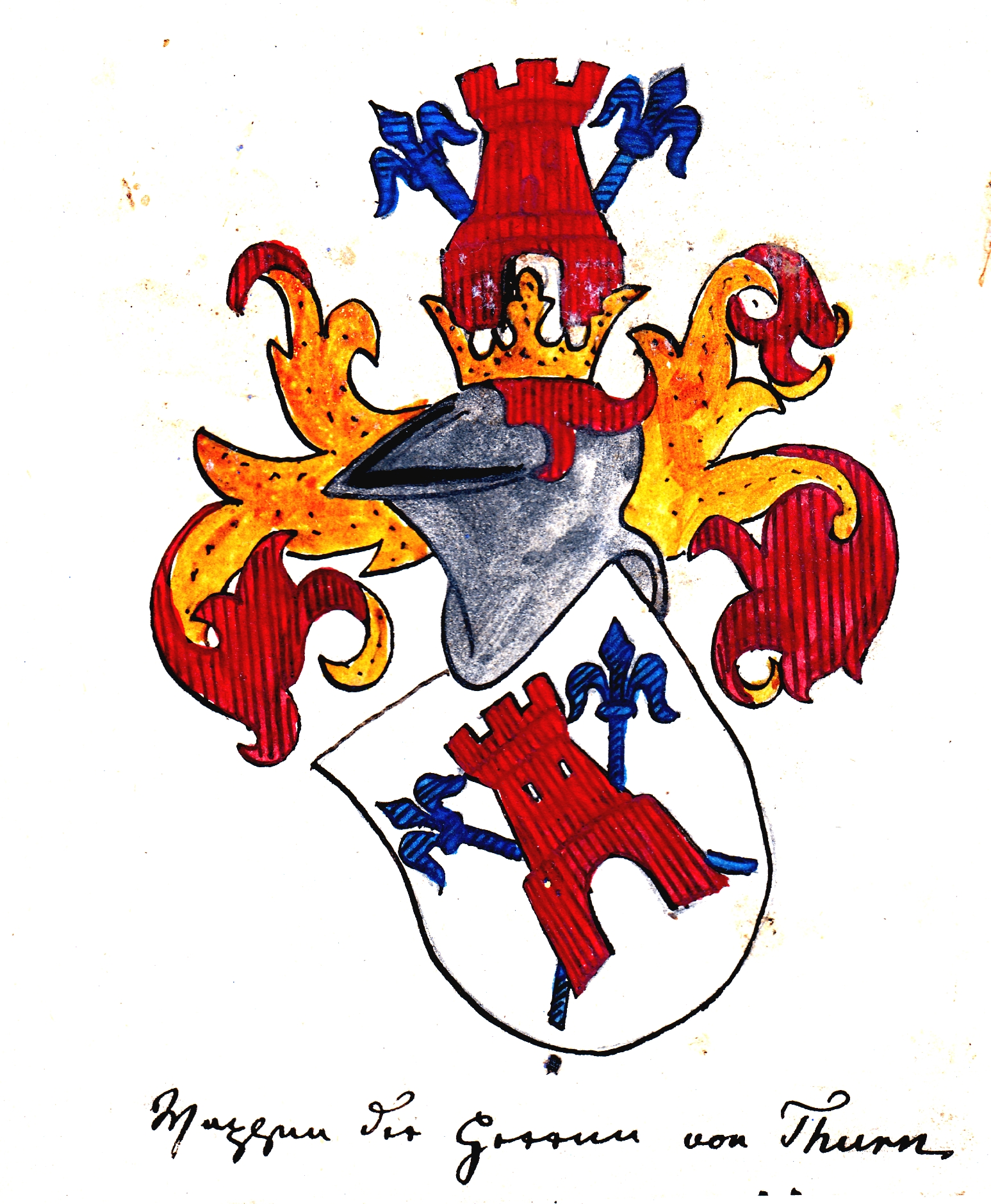 Coats of arms of Thurn family - Coloured drawing ( around 1890 ) by Ernst Count Sprinzenstein ( Family archives Sprinzenstein